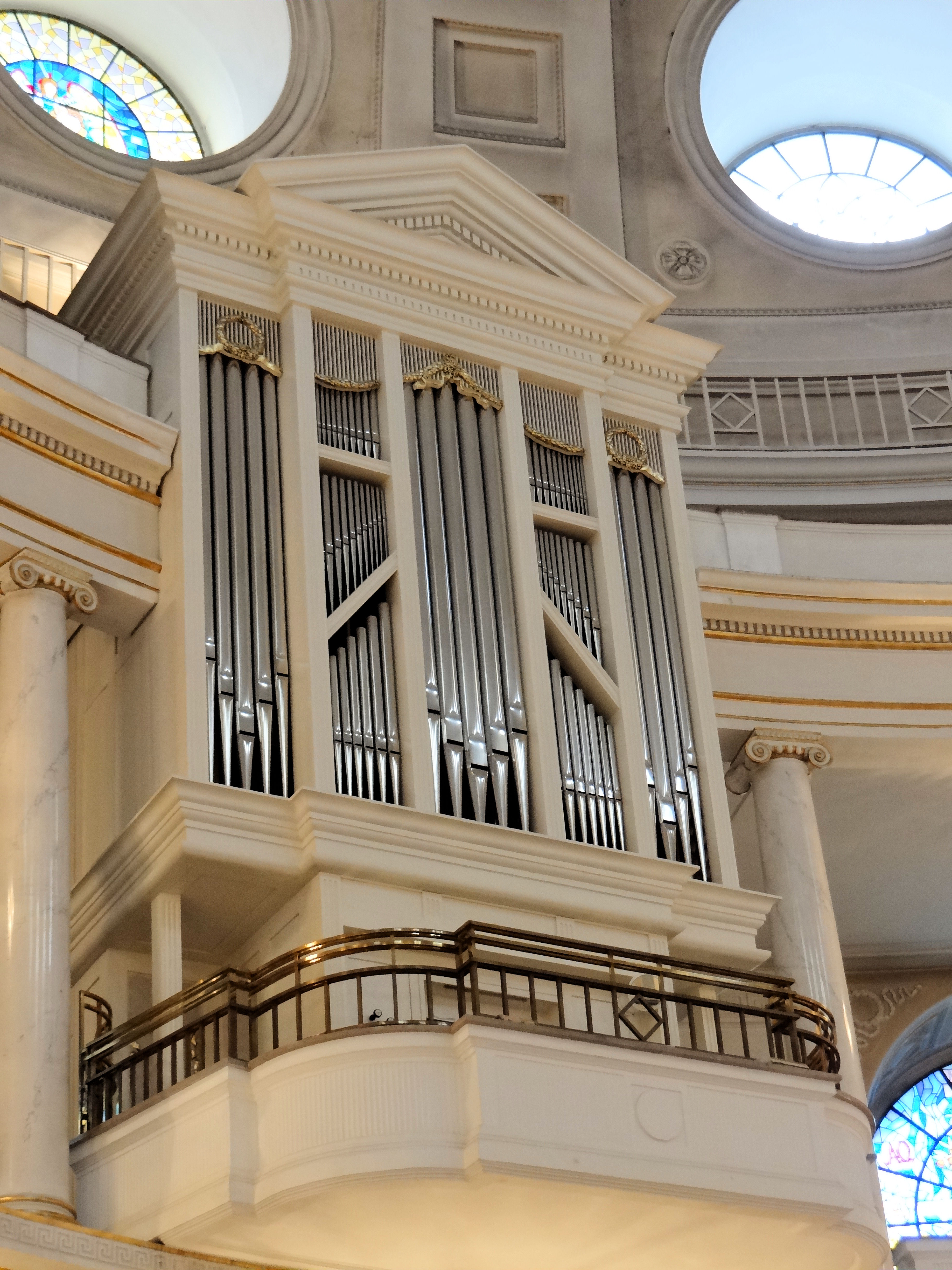 Pipe organs of Holy Trinity Church in Warsaw (Lutheran)